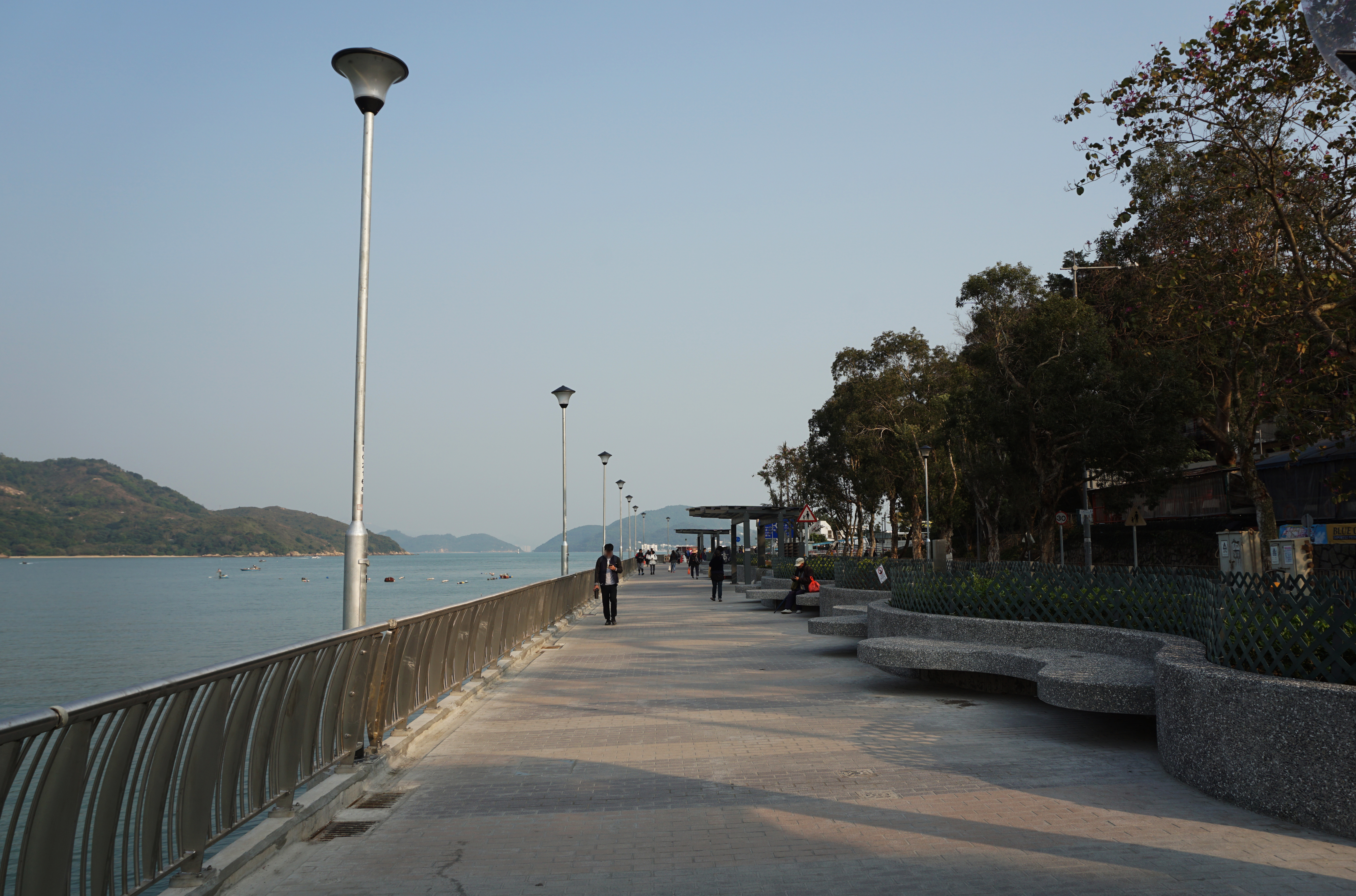 Promenadem in Mui Wo, Hong Kong.